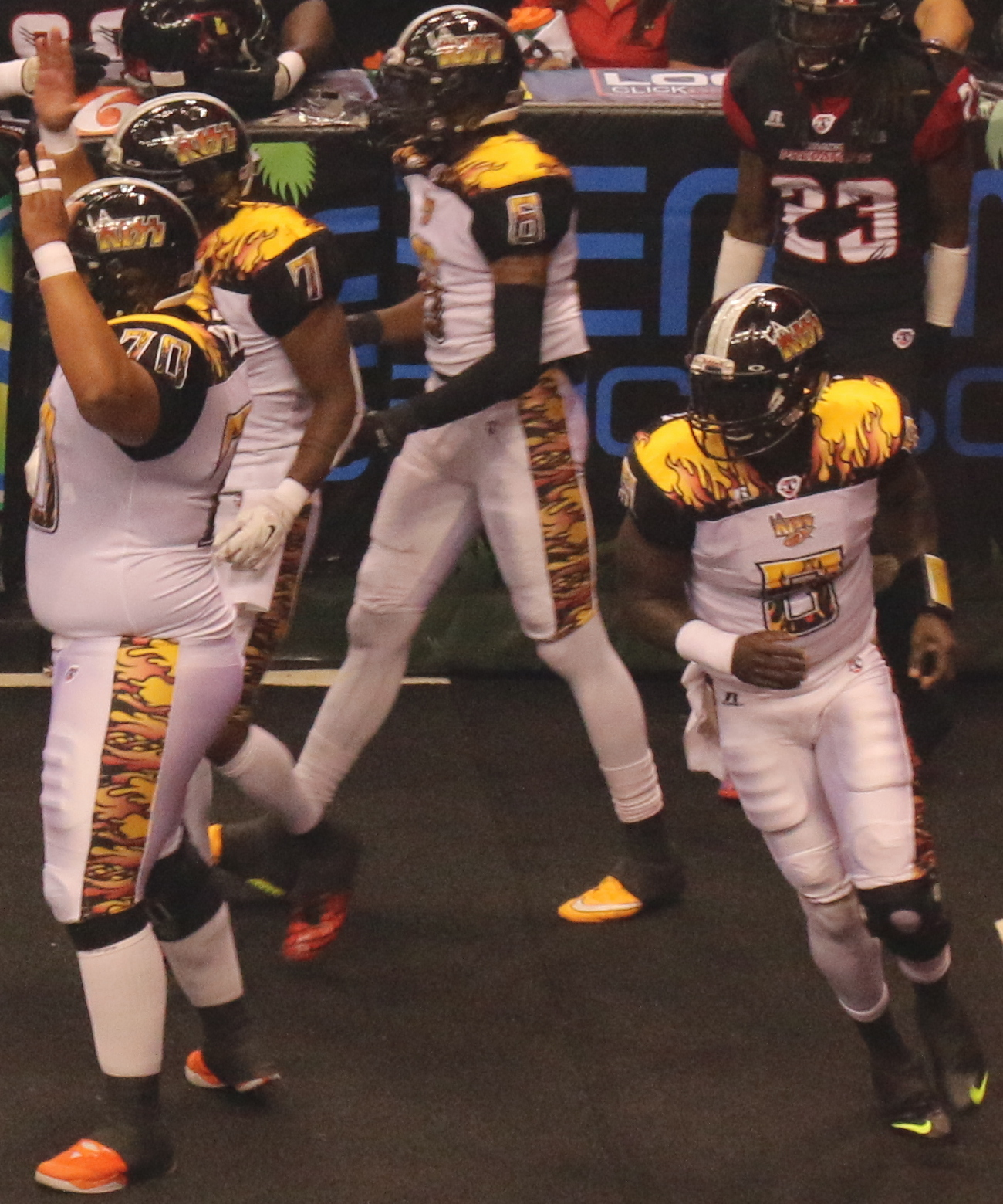 ORLANDO, Fla. – The Headquarters and Headquarters Company, 143d Sustainment Command (Expeditionary) Color Guard presented our nation’s colors to more than 11,000 screaming fans who waited to see the Orlando Predator take on the Los Angeles Kiss at the Amway Center here, Saturday, April 18, 2015. The Orlando Predators are a professional arena football team based in Orlando, Florida. The team is part of the South Division of the American Conference of the Arena Football League. “The 143d color guard did an outstanding job as usual,” said Mr. Adrian Robles, the community relations director for the Predators. "We always look forward to seeing them perform", he further added. Photos by Chief Warrant Officer 3 Desiree Felton